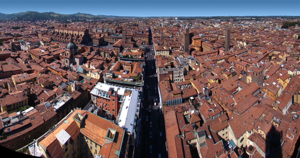 Bologna, Emilia-Romagna, Italy. Panorama westward, viewed from the top of the Asinelli Tower. At the center, the Via Aemilia, former Roman road. Standing out of the urban landscape are, on the left the San Petronio Basilica, on the right the San Pietro Cathedral.